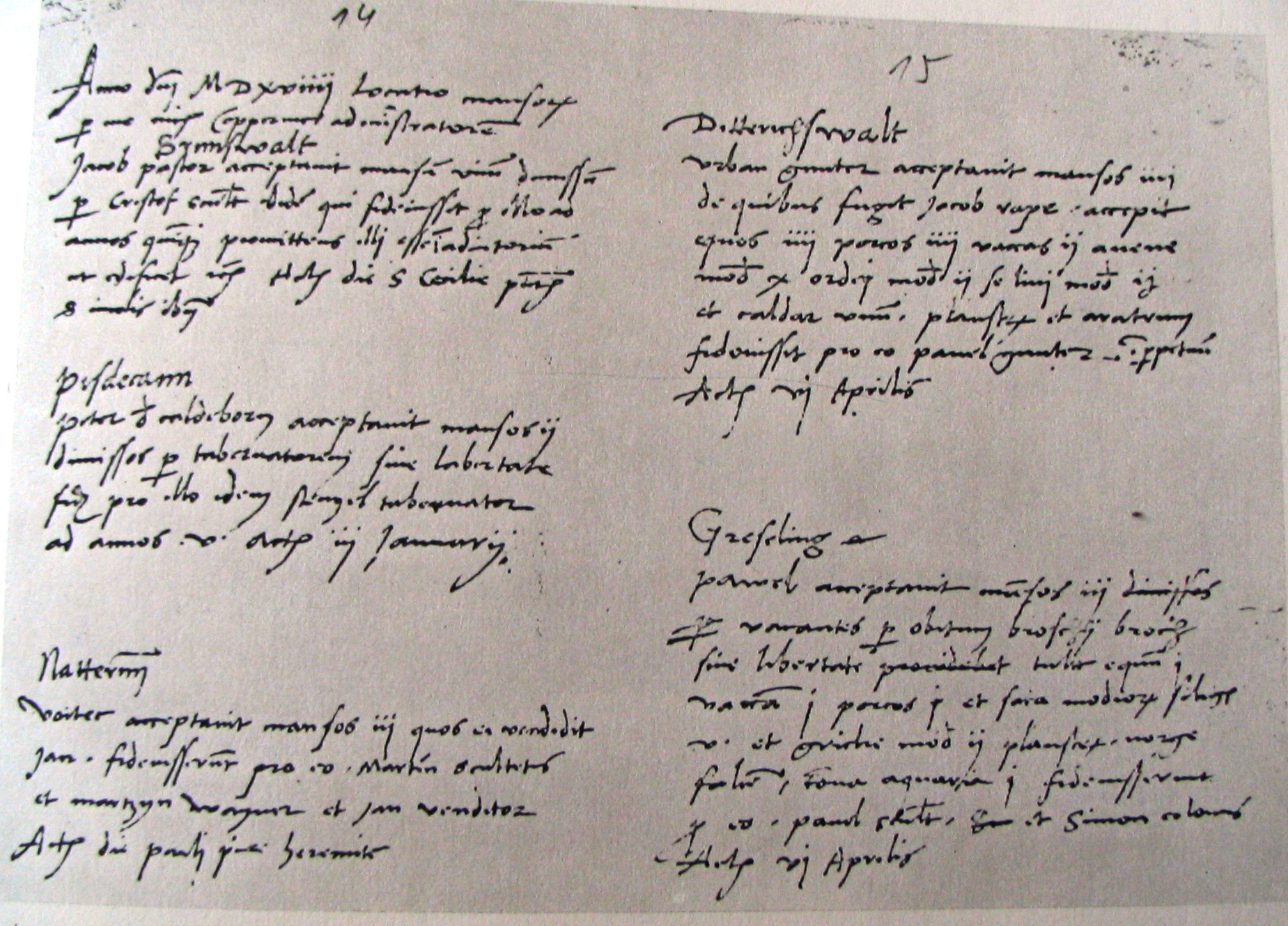 Nikolaus Copernicus - Locationes mansorum desertorum